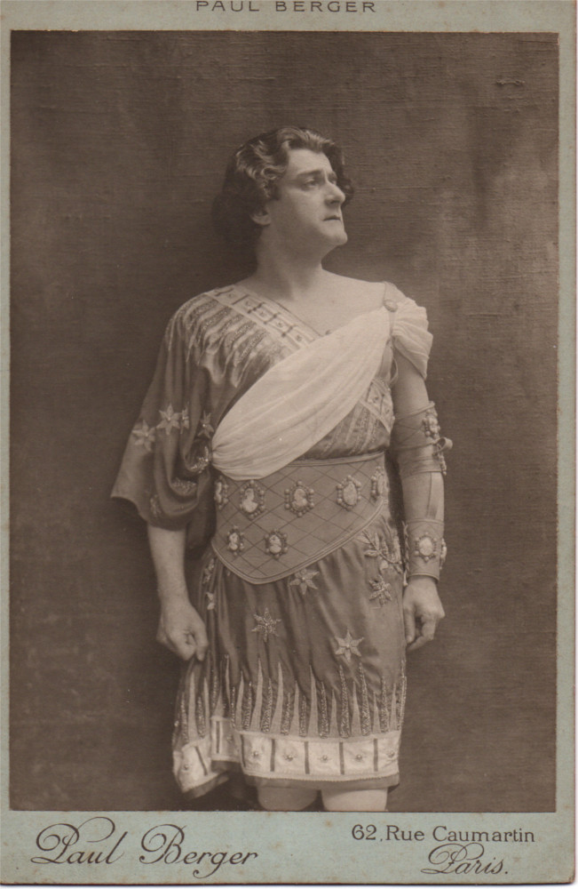 Cabinet card of Edouard de Max in the role of Marc-Antoine from Jules Cesar (1906) by the photographer Paul Berger